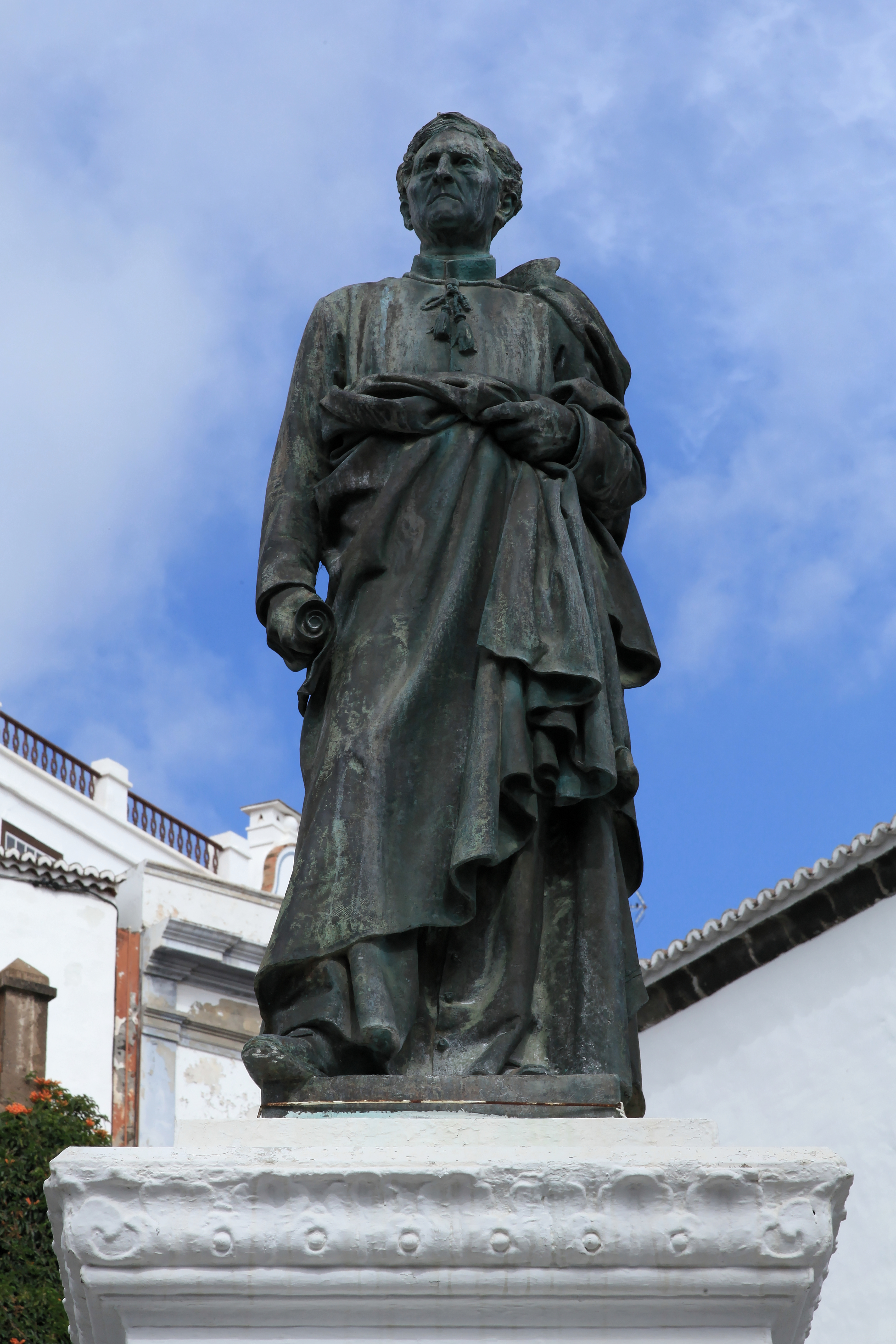 Memorial to Manuel Hernández Diaz, Plaza de España in Santa Cruz de La Palma, La Palma, Canary Island, Spain